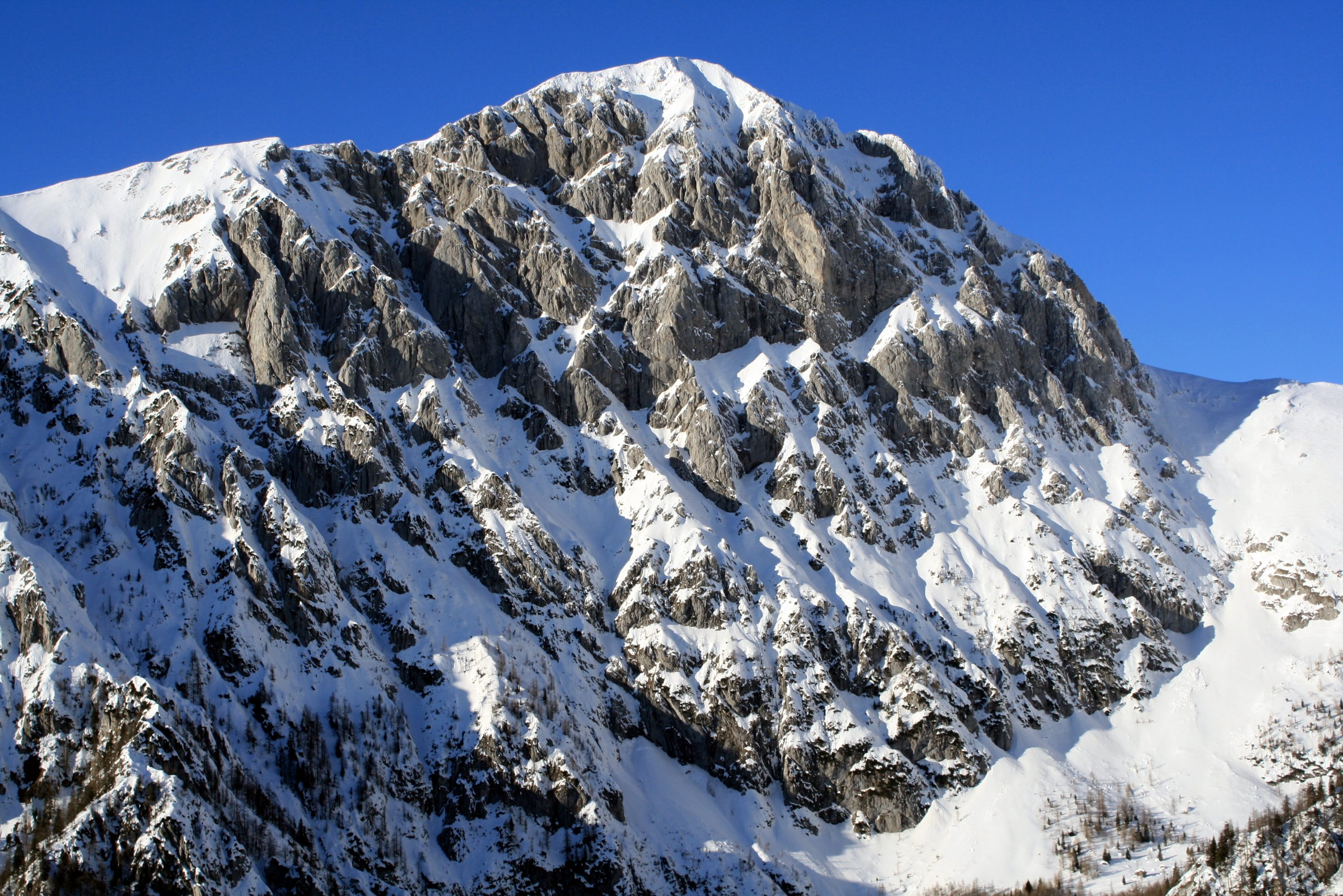 Brana east face seen from Kamniški vrh.